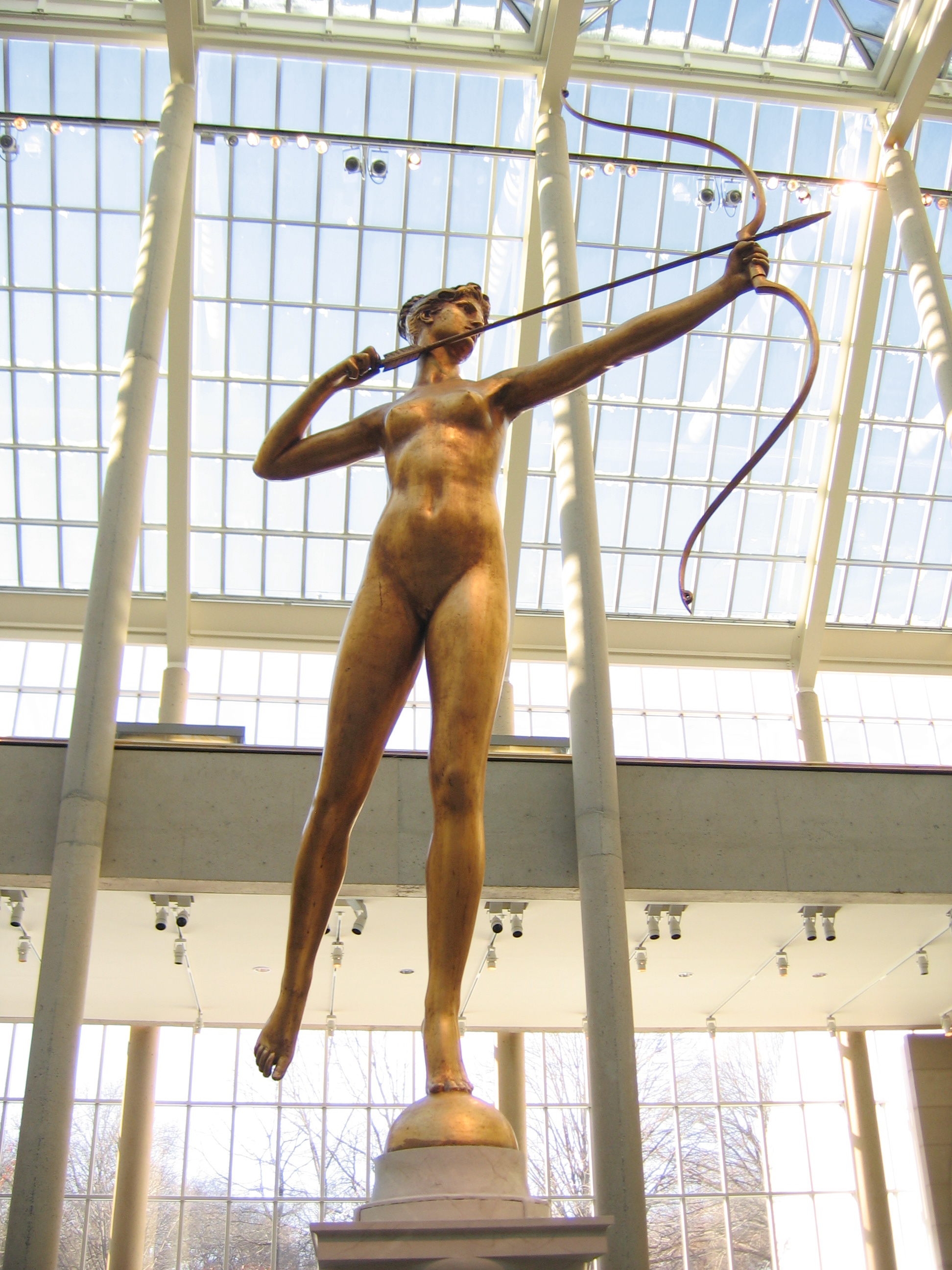 Diana, 1892 - 93, 1928 cast. Augustus Saint-Gaudens (1848 - 1907). Bronze. Metropolitan Museum of Art, New York City